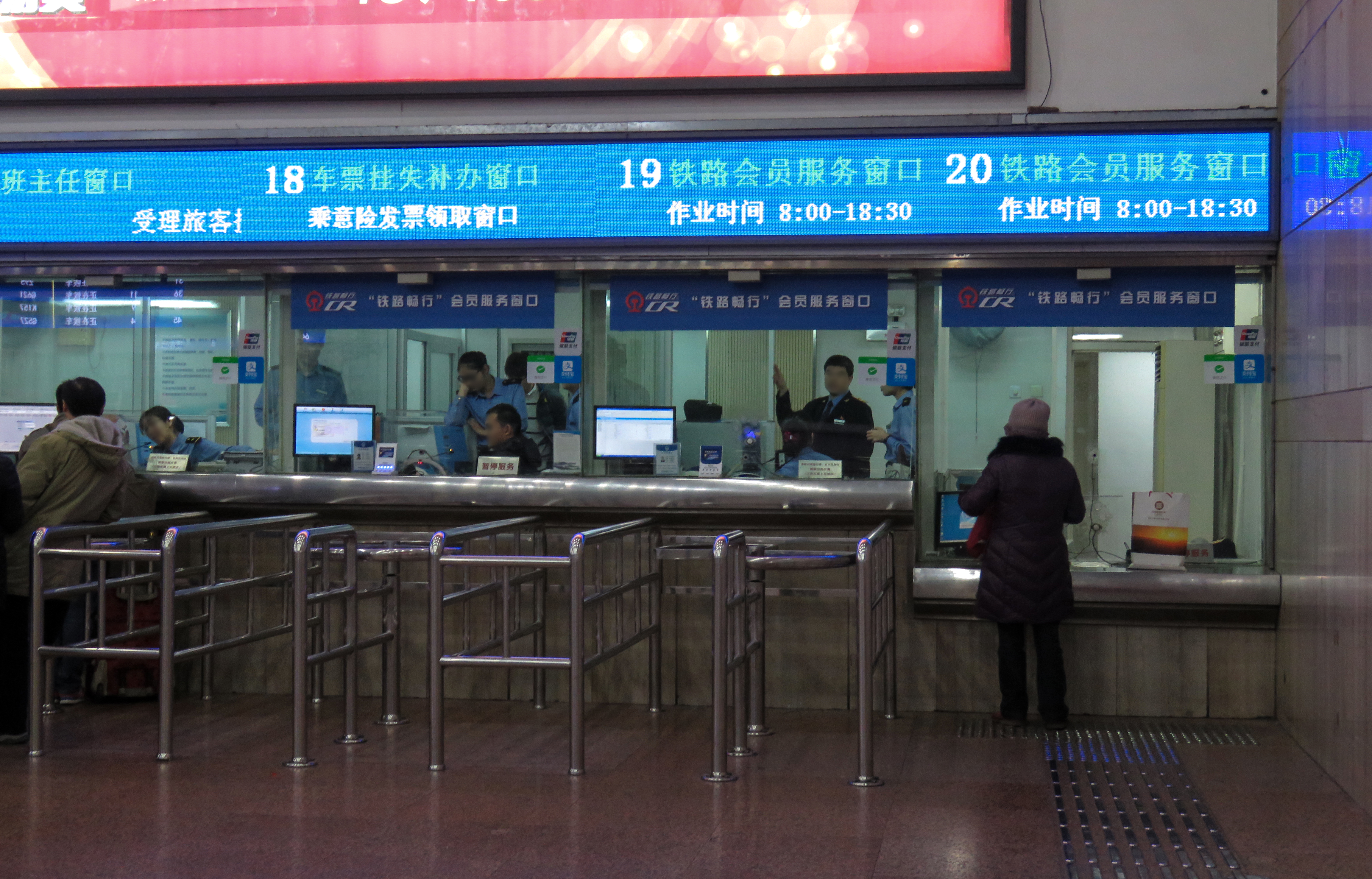 China Railway has just started its "frequent flyer program" - uh, frequent traveller program on 20 December 2017 (today), but didn't provide its English name... Hmm, I'll just call it "CR FFP" until it gets an official foreign name. Now, which alliance will CR go to? Coincidentally, oneworld still lacks a member from mainland China!